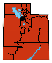 No need to update unless death outside of Salt Lake County occurs.